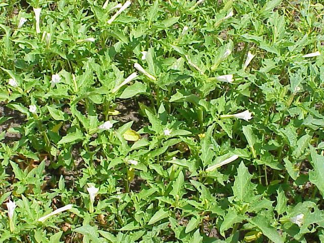 Species: Datura stramonium Family: Solanaceae Image No. 1